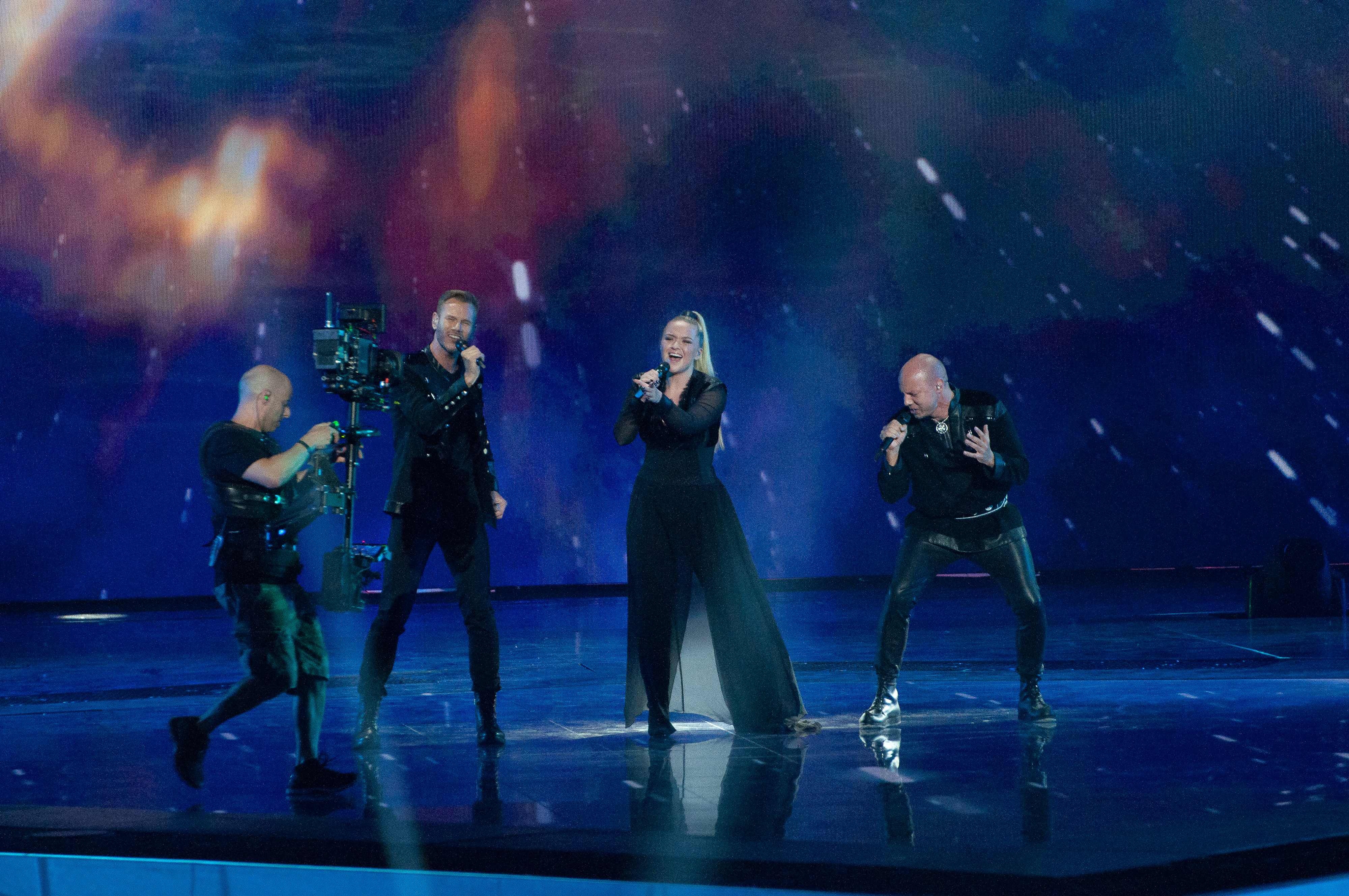 At the 2019 Eurovision Song Contest Semi-final 2 dress rehearsal